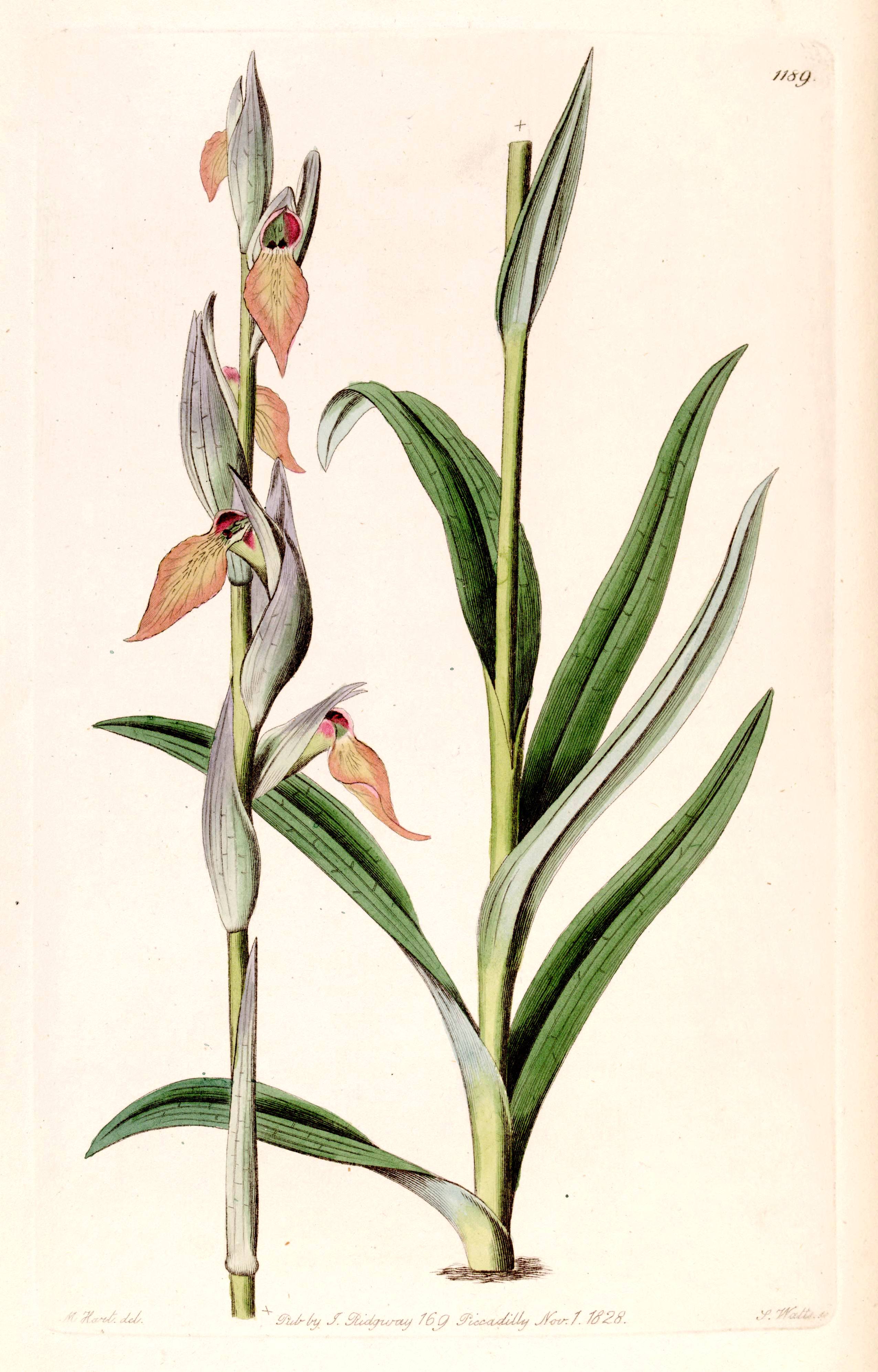 Illustration of Serapias cordigera